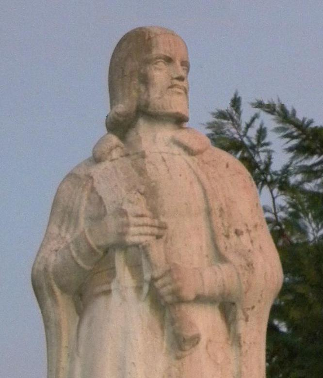 Location: Hungary, Tata